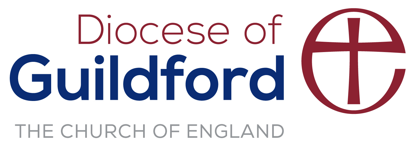 The logotype for the diocese of guildford